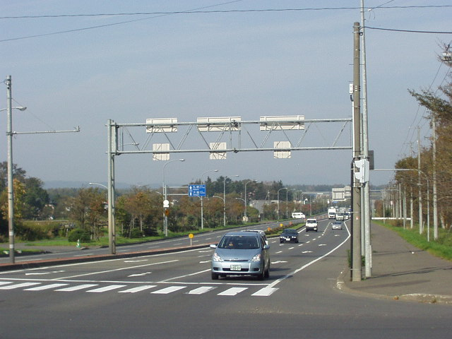 National route 36 of Japan. Eniwa, Hokkaidō prefecture, Japan.